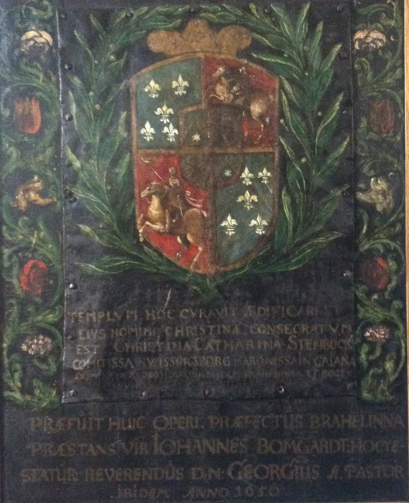 Plaque commemorating the building of the church in Ristiina, Finland, 1650. First mentioned is the donor, Catharina Stenbock (wife of Per Brahe, the Govenor General), and following the castle warden Johan Bomgård and the first vicar of the church Georgius Andreae Kyander.